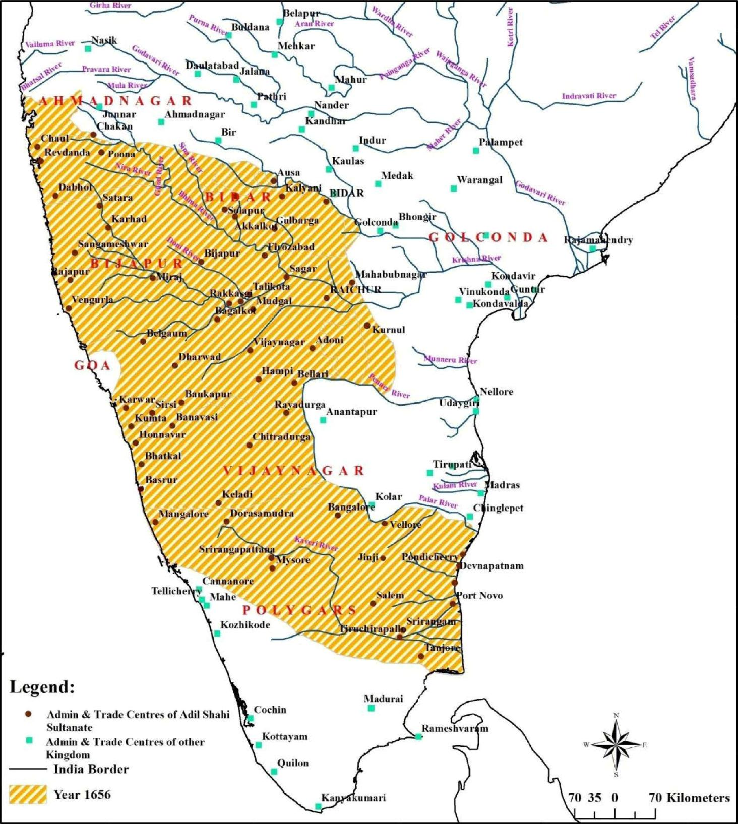 Map of the Bijapur Sultanate 1656